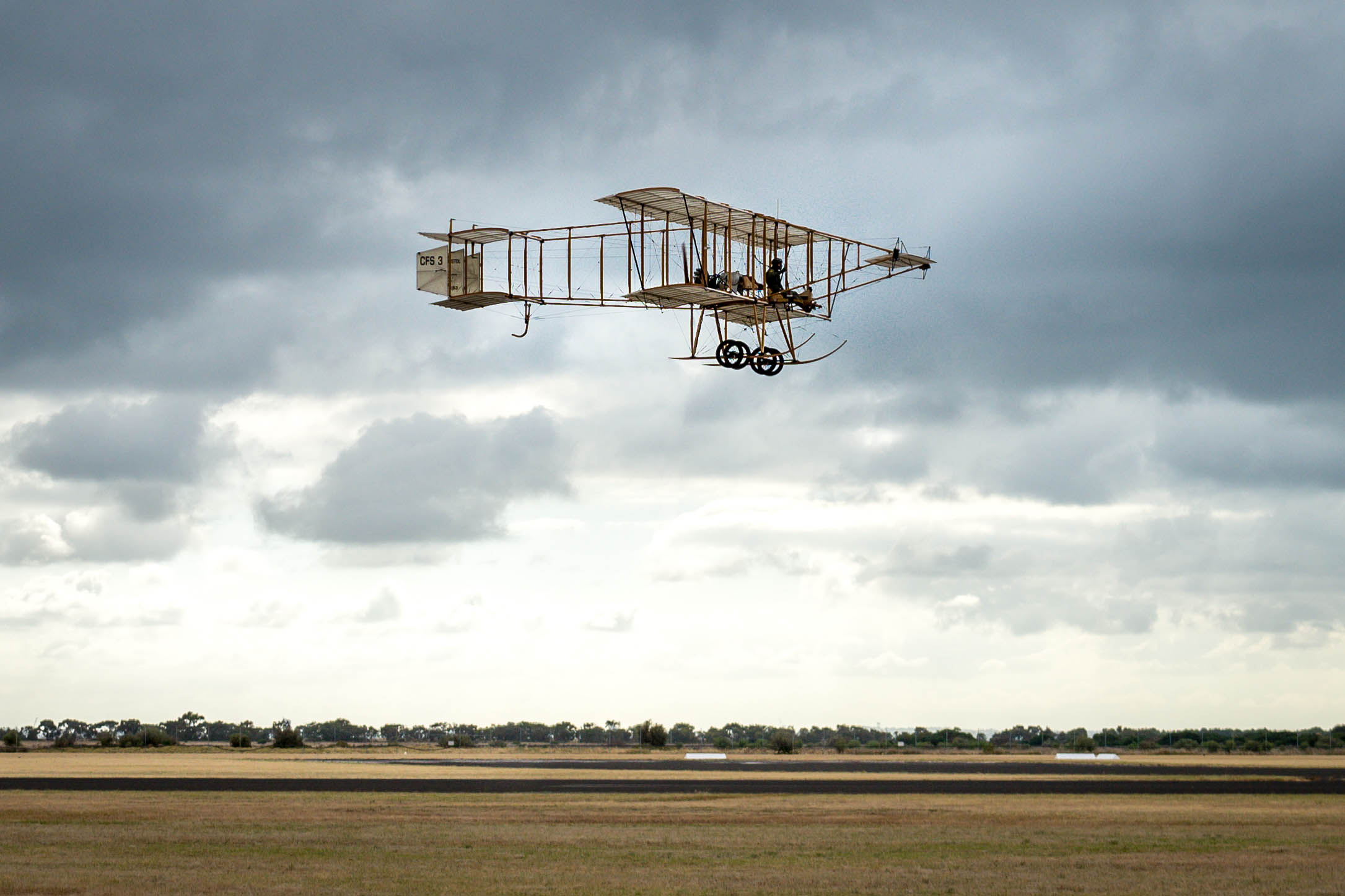 Bristol Boxkite Centenary Flight at RAAF Centenary of Military Aviation 2014